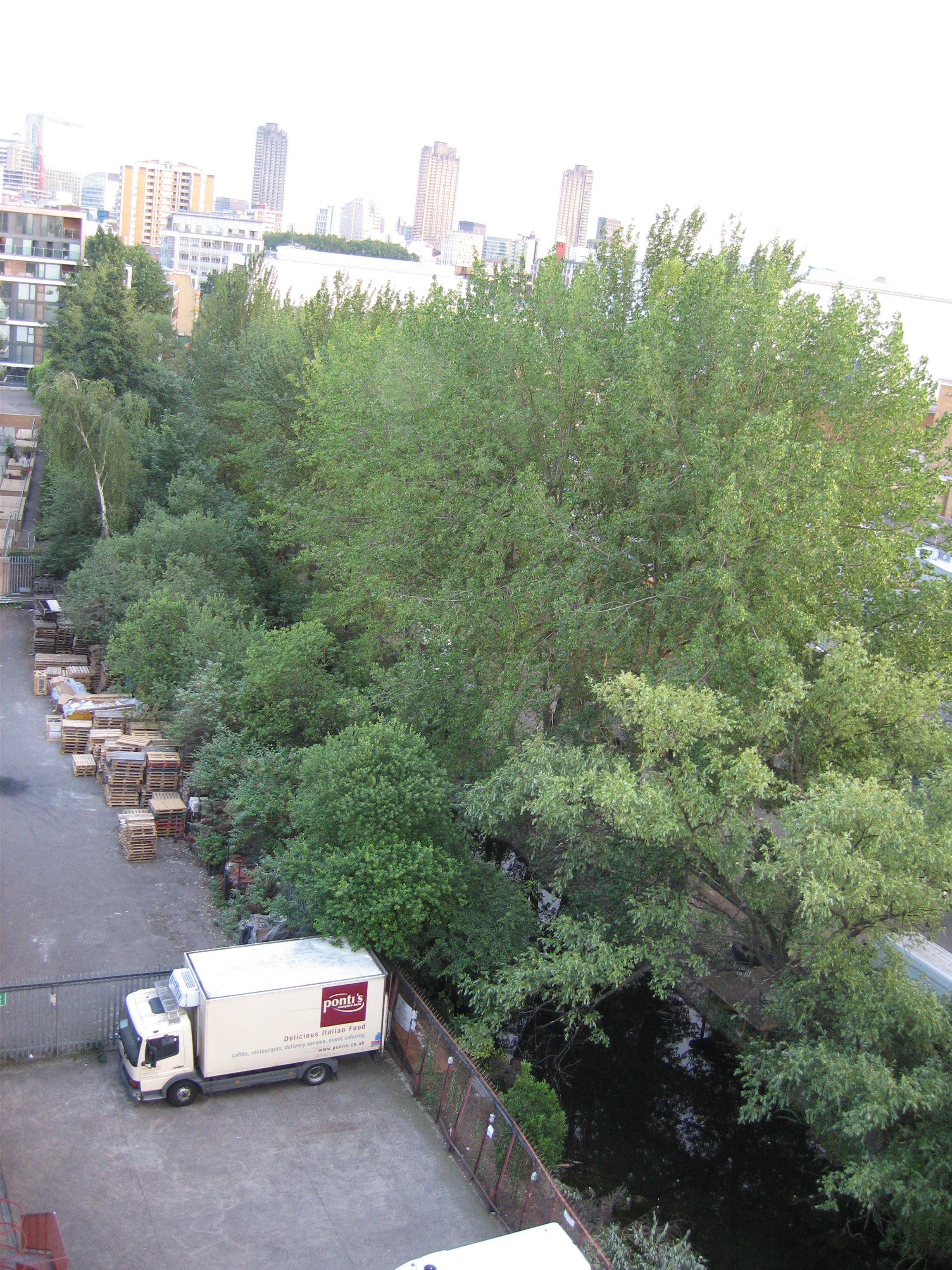 Looking South down Wenlock Basin towards the Barbican Estate towers.